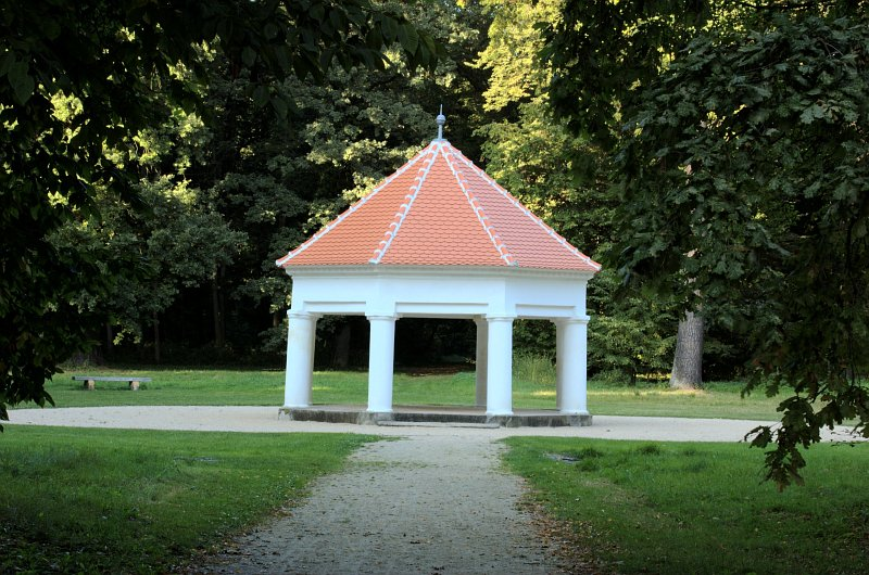 Milotice Castle, Czech republic